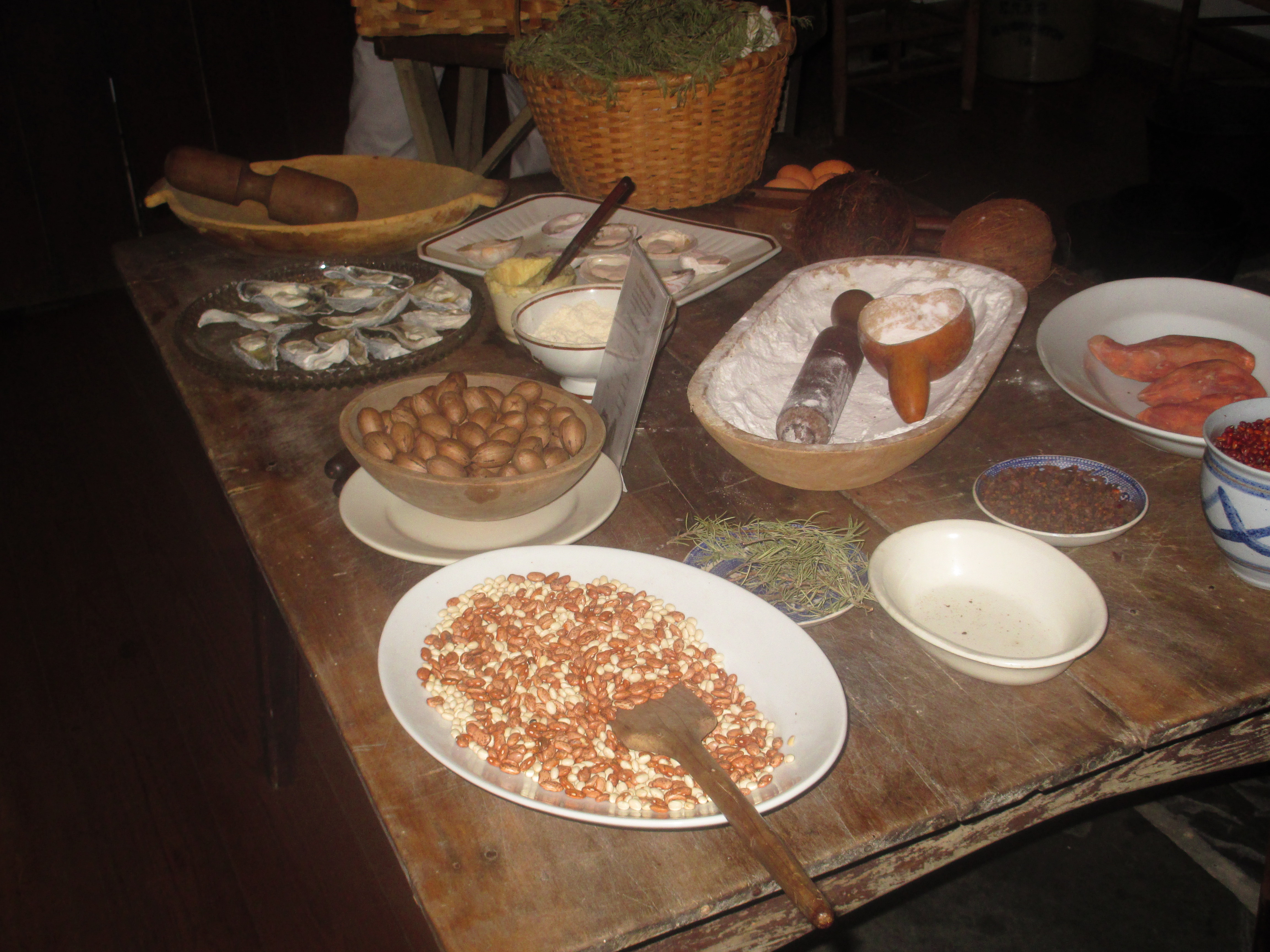 I took photo with Canon camera at Bellamy Mansion in Wilmington, NC.